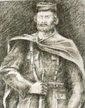 Portrait of the Macedonian revolutionary Mile Pop Jordanov, drawing by Pero Korobar